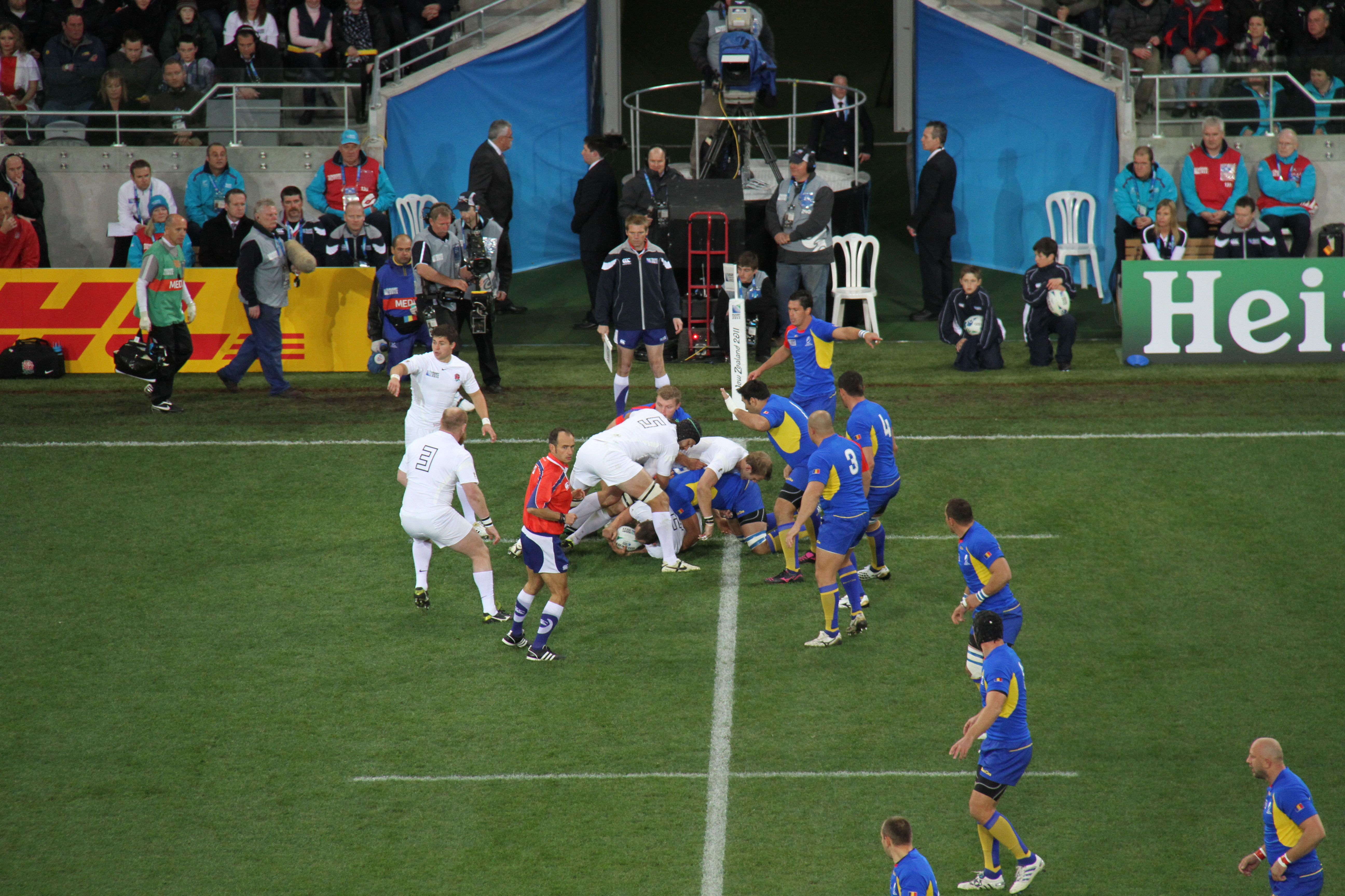 Match between England and Romania during 2011 Rugby World Cup in New Zealand.